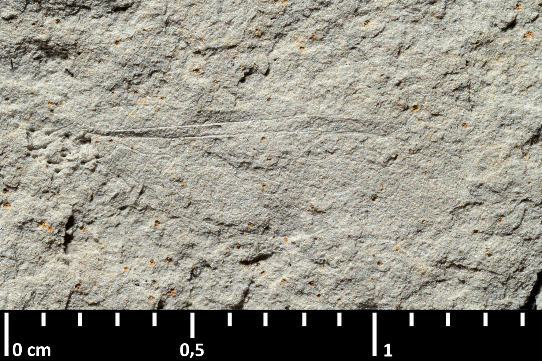 The Fibla (Reisserella) cerdanica holotype specimen counterpart side with direct lighting. Synonym Miofibla cerdanica Vallesian/Turolian, Miocene; Bellver de Cerdanya, eastern Pyrenees, Spain Muséum national d'Histoire naturelle specimen MNHN.F.R10418